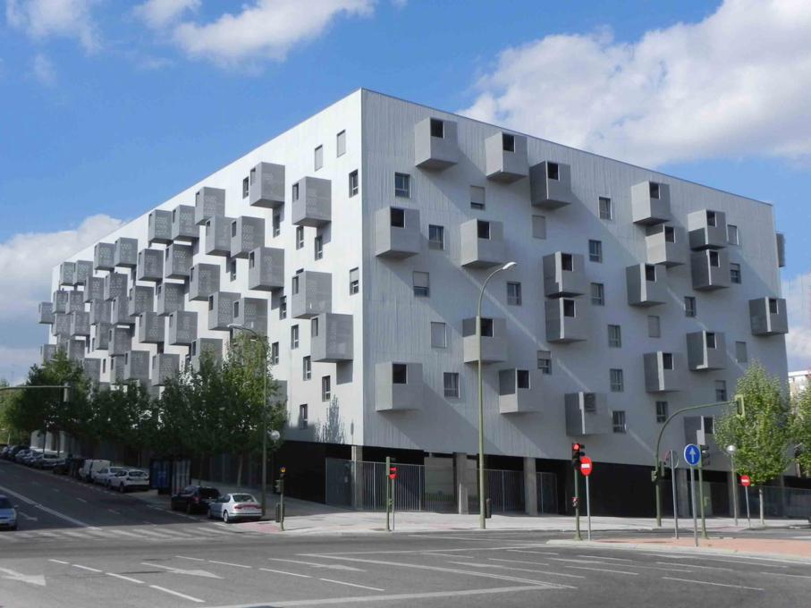 View of Carabanchel 31 building in Madrid (Spain) from the south-west angle.